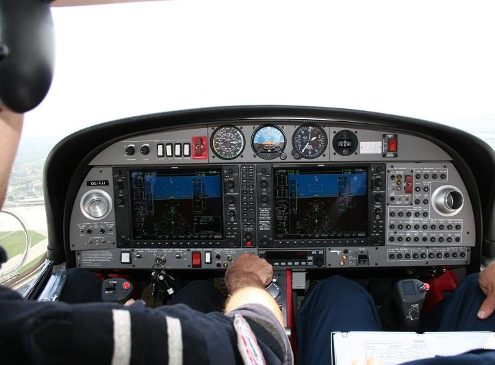 DA 42 Glass Cockpit